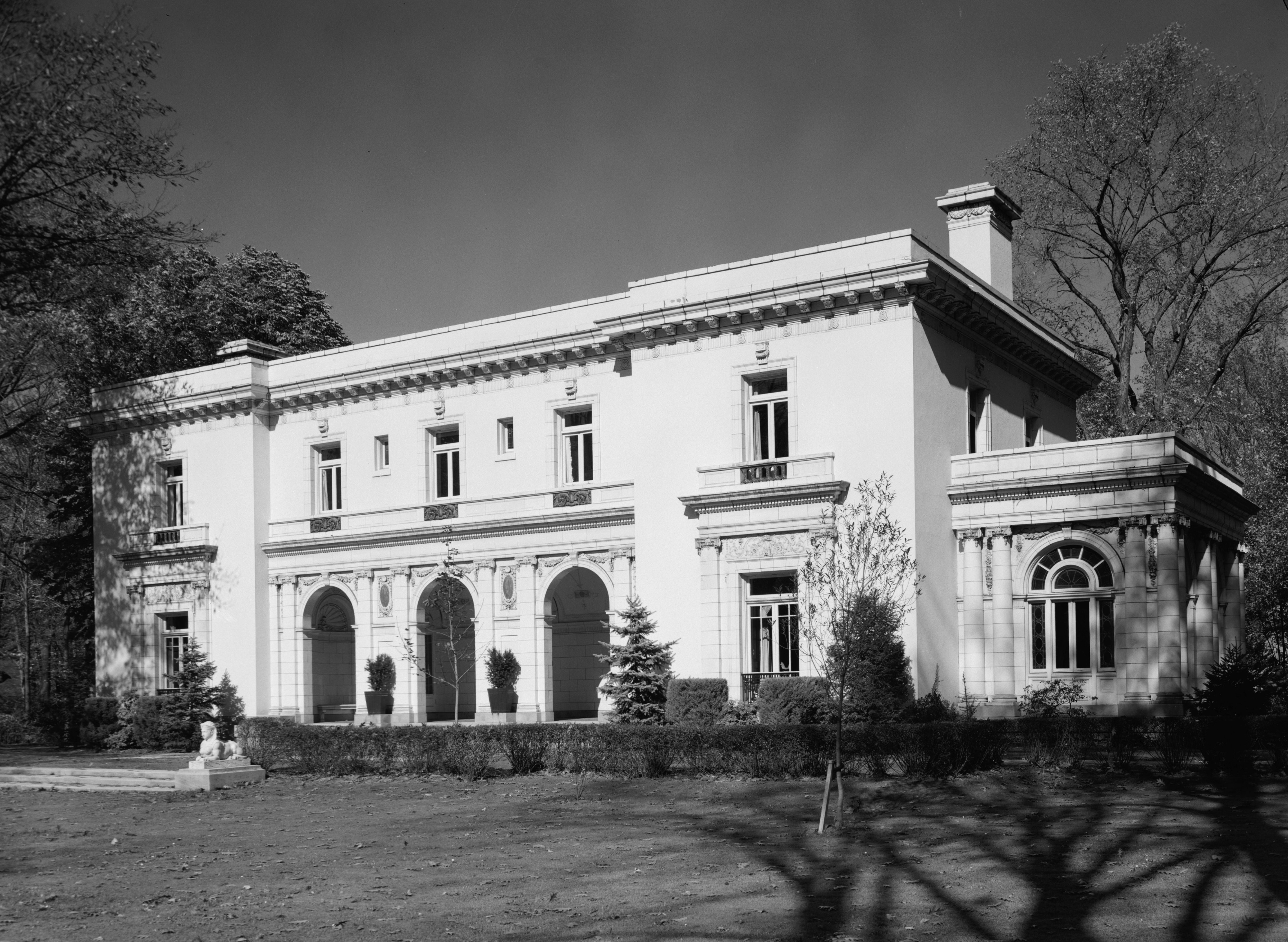 National Register of Historic Places in Ohio. Tremaine-Gallagher House, 3001 Fairmount Boulevard, Cleveland Heights, Cuyahoga County, Ohio, SOUTH (FRONT) AND EAST SIDES Building/structure dates: 1912 initial construction.